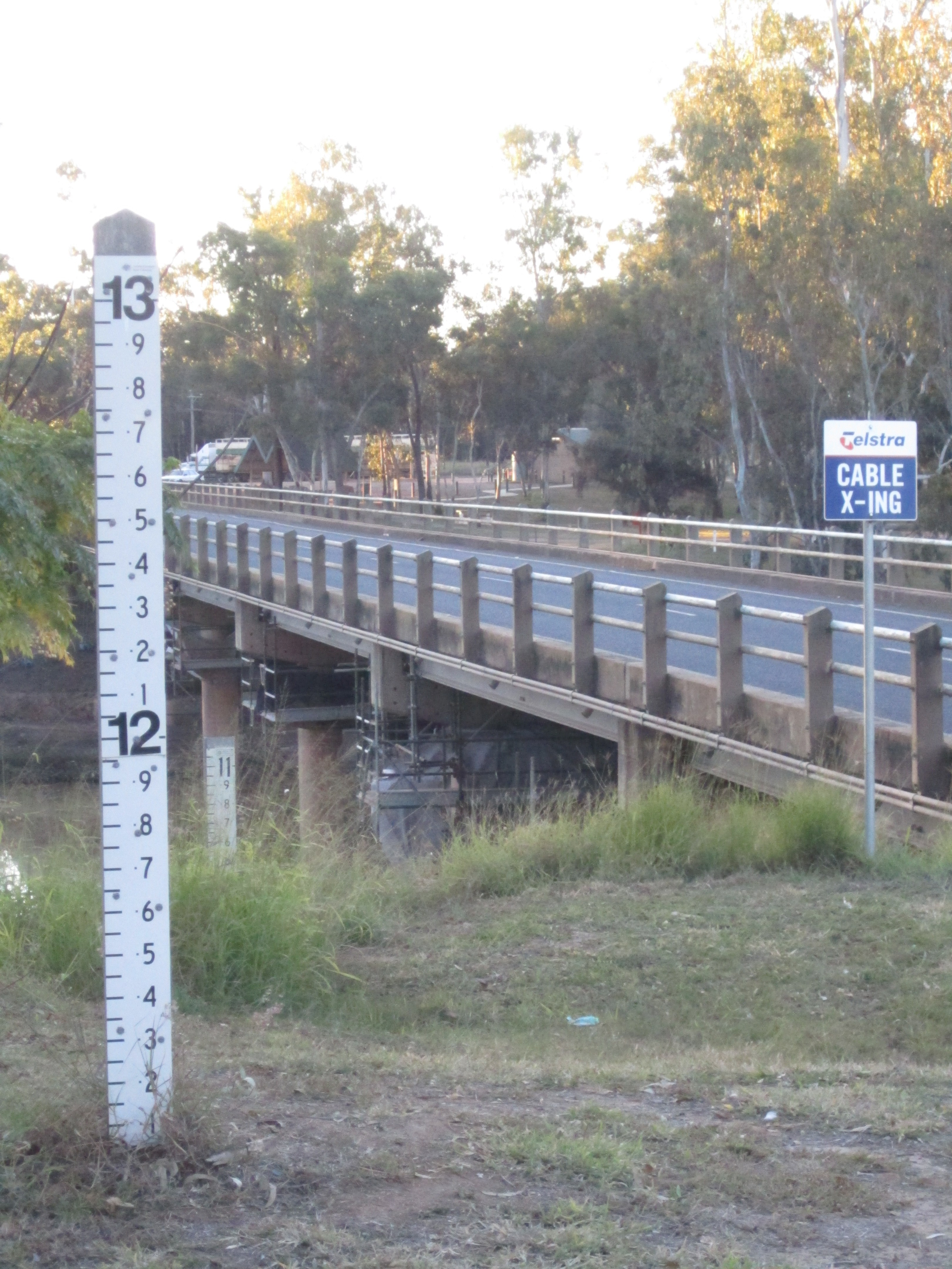 Bridge over Dogwood Creek, just west of Miles, Queensland